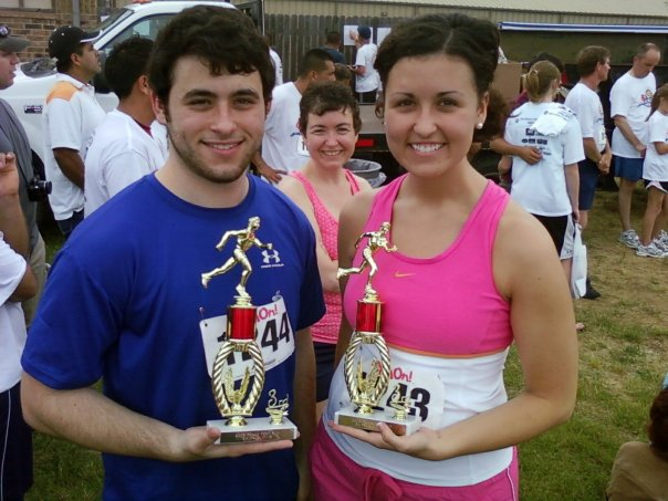 These are the winners of the Polka Run in 2009 at the National Polka Festival in Ennis, Tx. Other information All permissions and releases were obtained by the people in the photos and an email from the owner of the photo stating that this photo is free to be published was sent to .